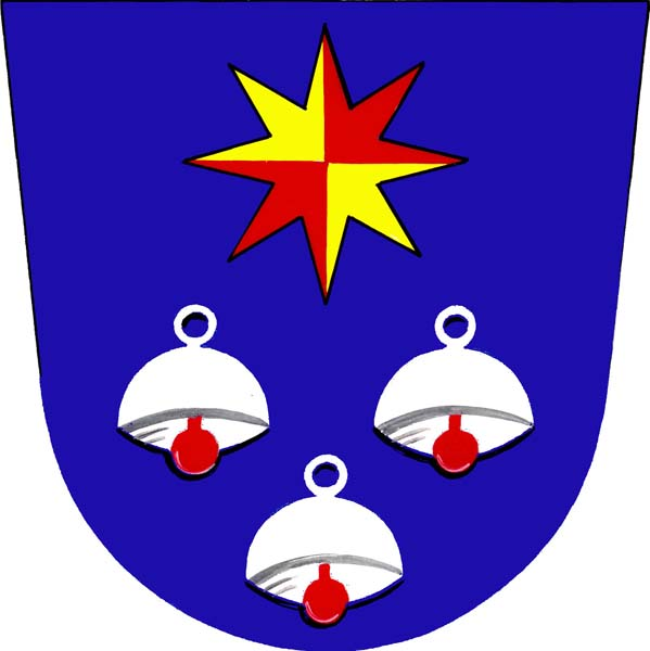 Municipal coat of arms of Křižanovice village, Vyškov District, Czech Republic.